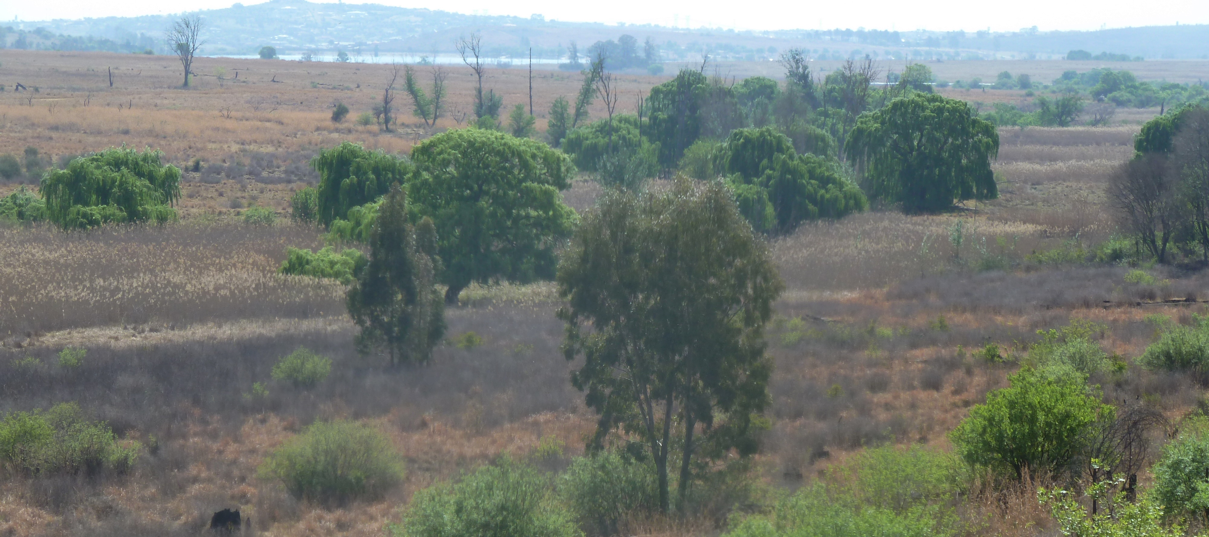 View of the banks and floodplain of the Rietvlei river, as seen froom a lookout point on route 4 in Rietvlei Nature Reserve, Gauteng